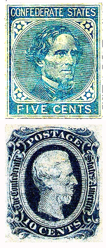 Jefferson Davis portraits on Five Cent (Scott #6; 1862) and Ten Cent (Scott #11; 1863) Confederate States of America postage stamps. The Cooper Collection of US Postal History